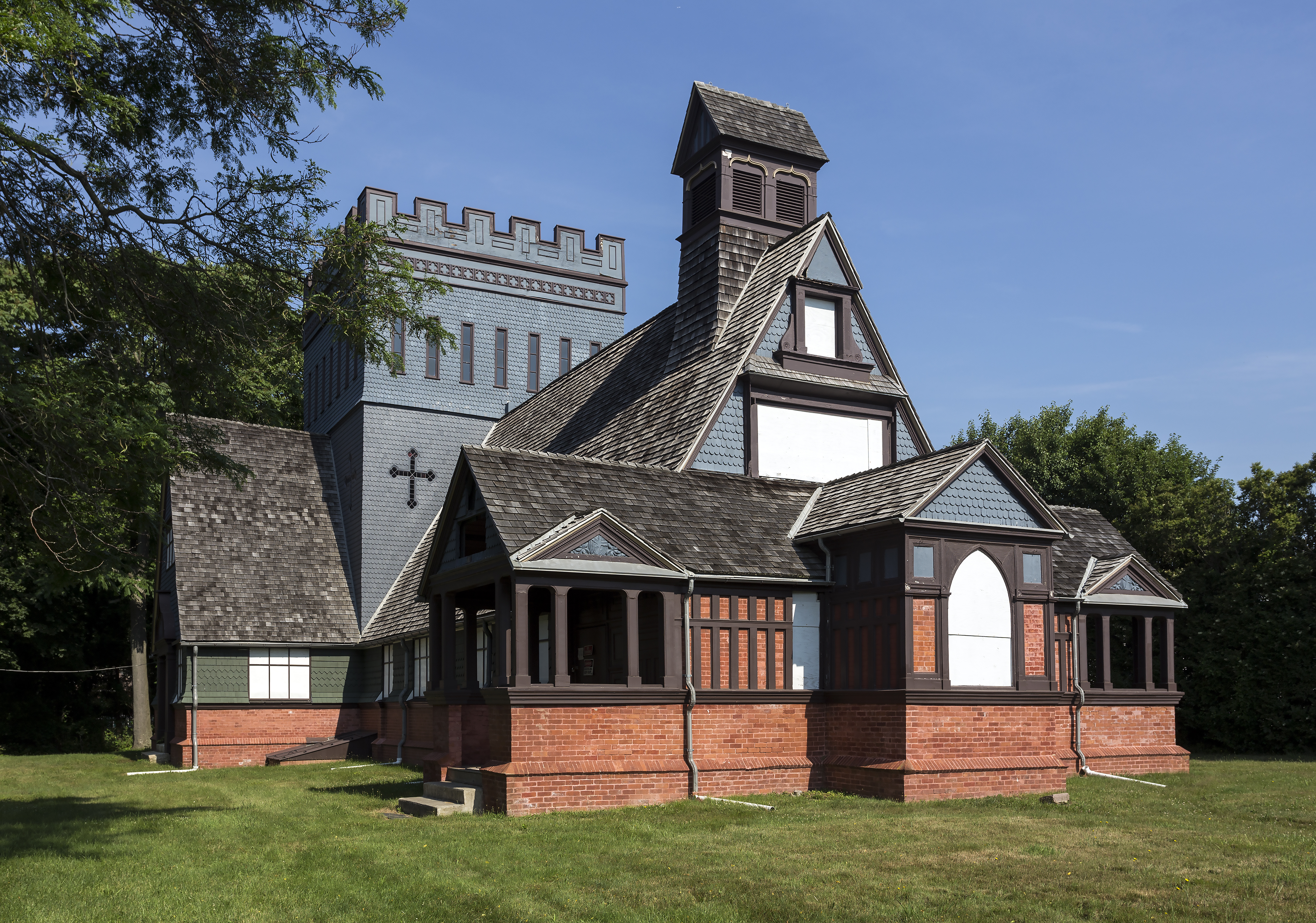 The Church of the Presidents, Long Branch, New Jersey, USA